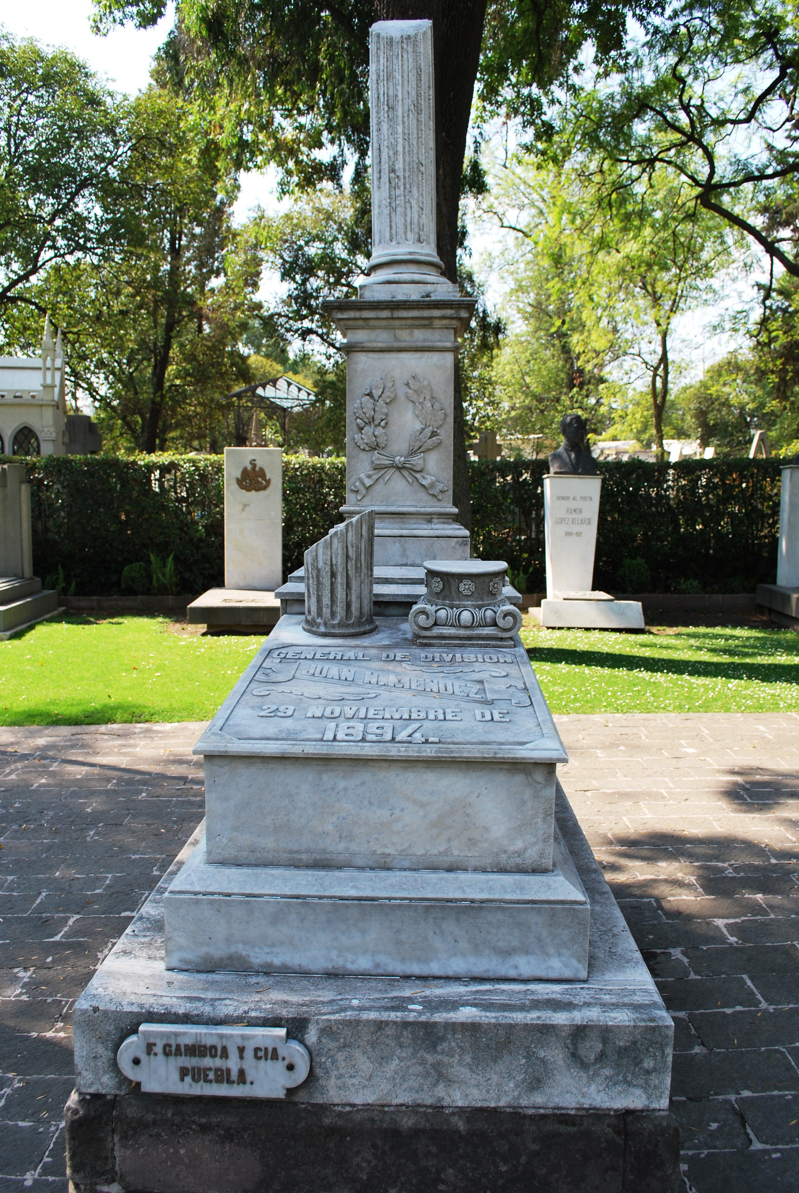 Tomb of General Juan N Mendez in the Panteón Civil de Dolores Cemetary in Mexico City.